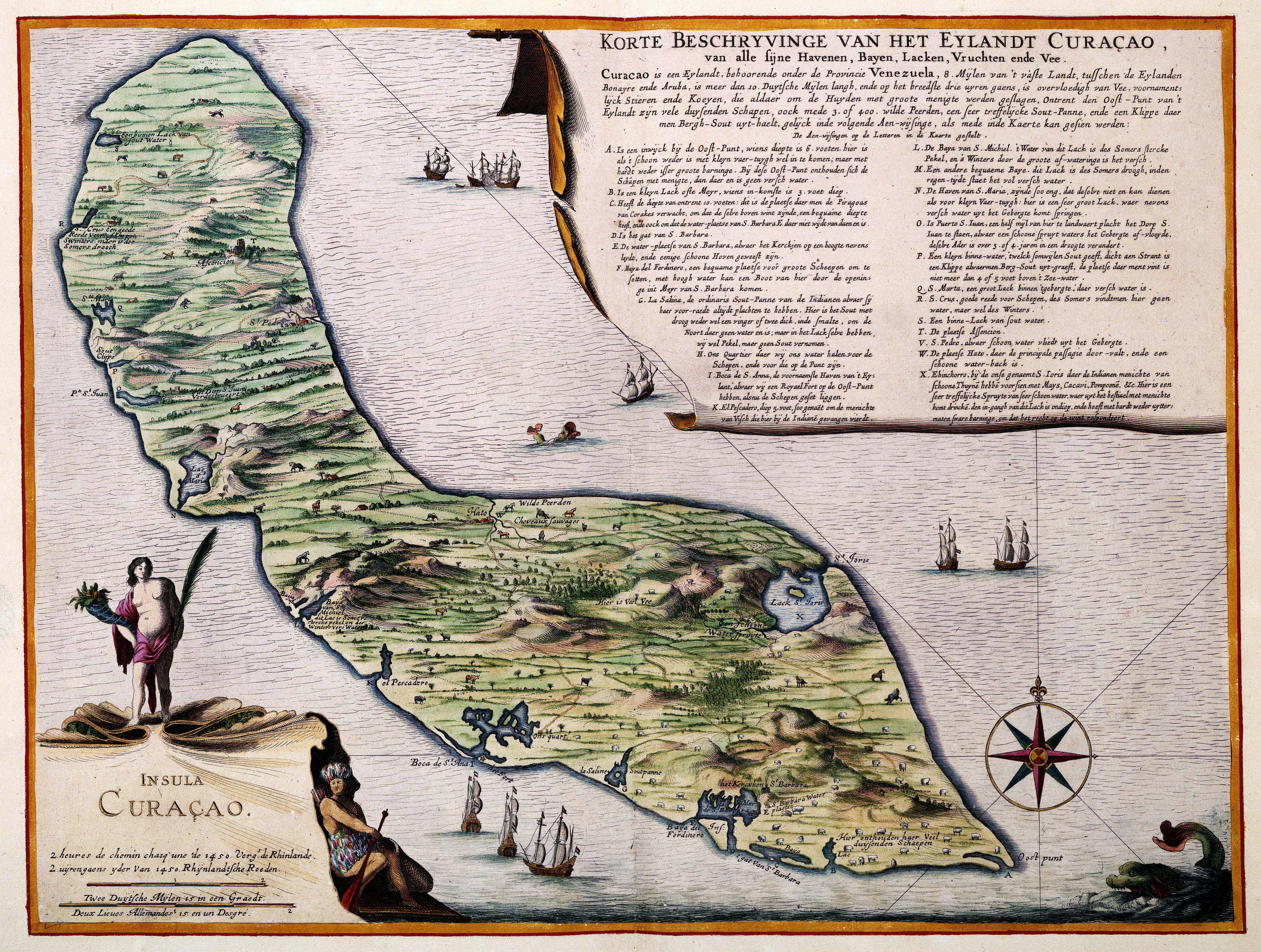 Curacao, an island of the Dutch West Indies, was conquered by the Dutch from Spain in 1634. This map was, probable at the end of the 17th century, compiled from nautical maps by Arent Roggeveen (deceased 1679) and Johannes van Keulen (c. 1634-1689).